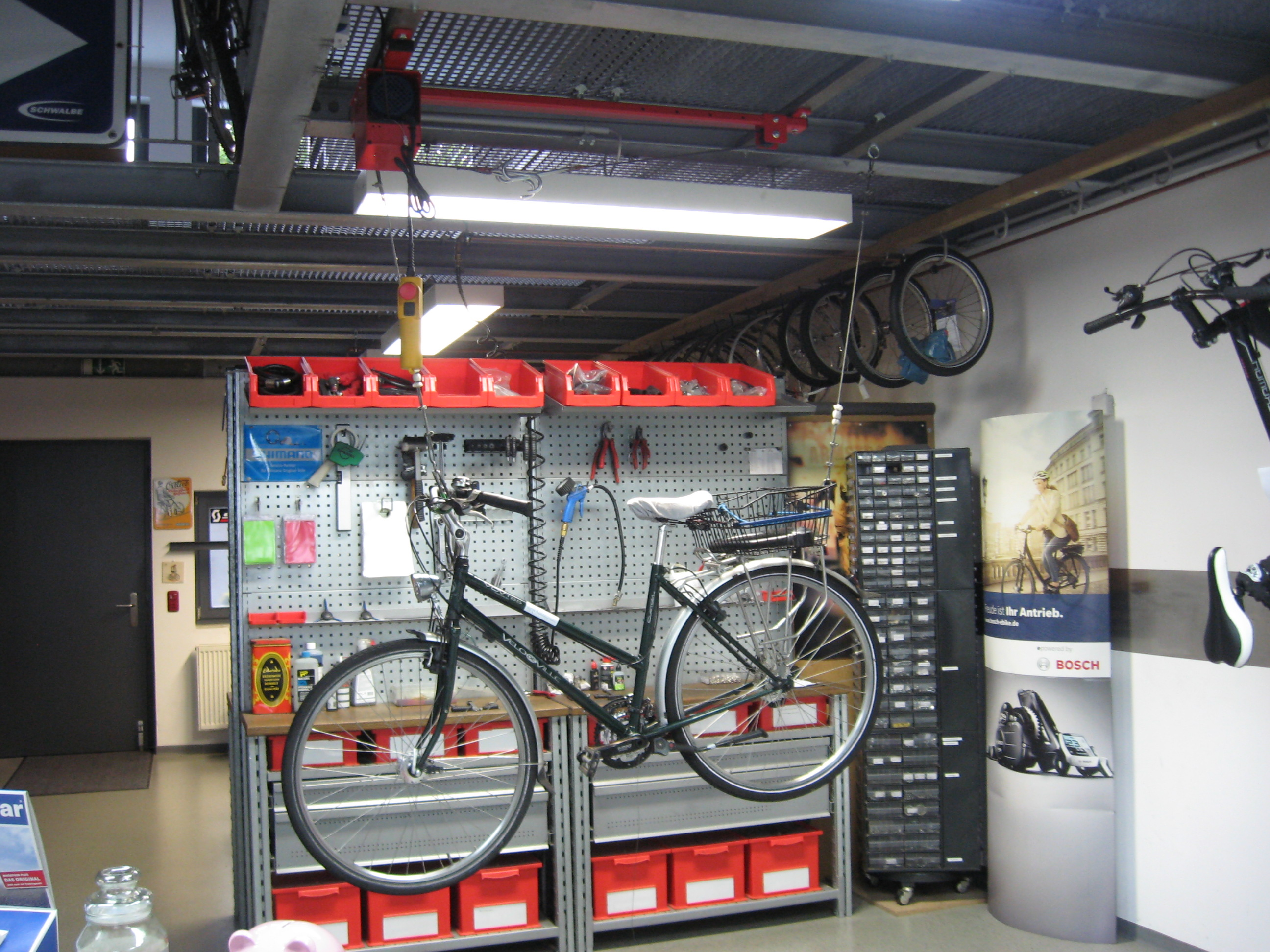 bicycle repair stand with electric driven winch for heavy electric bikes in the bicycle shop eldoRado in Magdeburg (Germany)